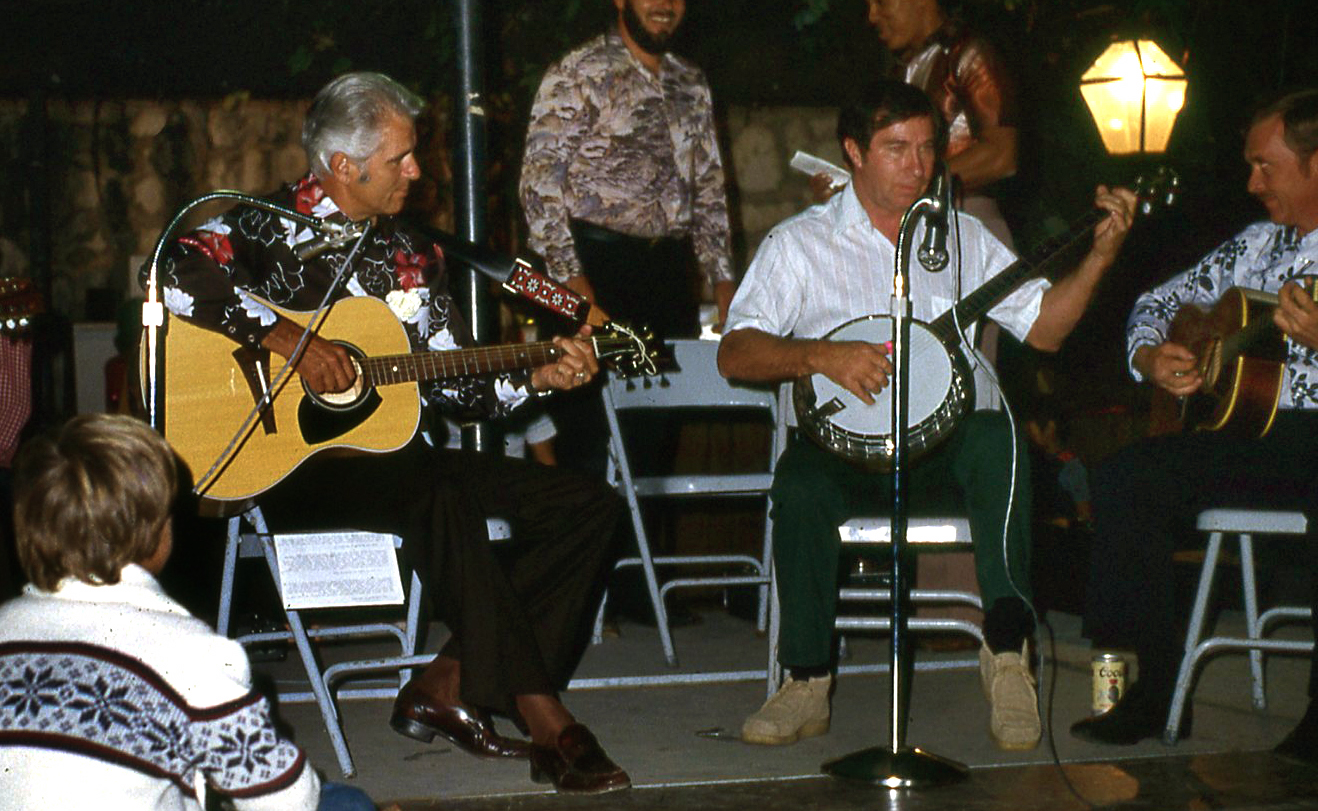 Evangelist Garner Ted Armstrong playing guitar at Feast of Tabernacles, San Antonio, Texas 1979